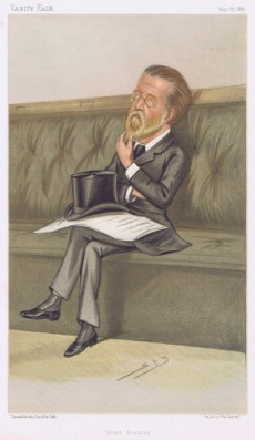 Caricature of Mr Justin McCarthy MP. Caption read "Irish history".